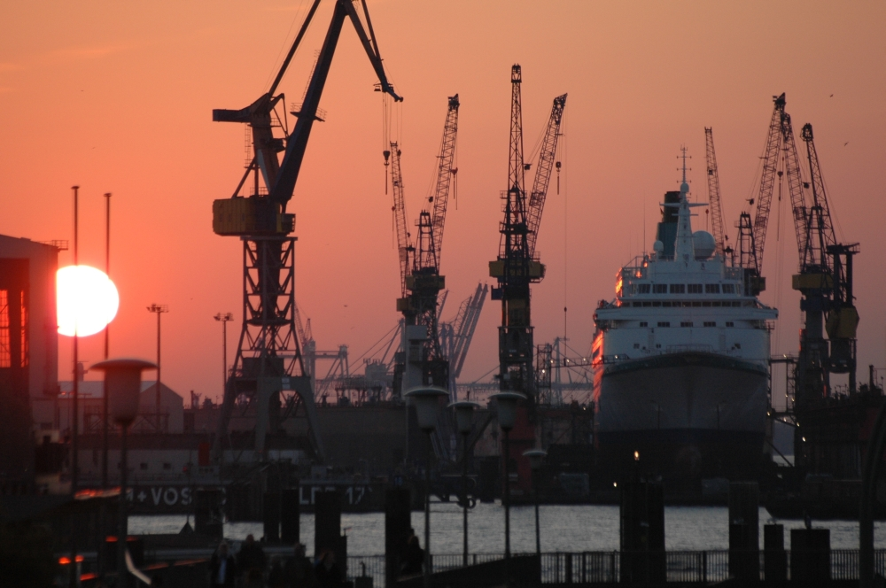 Sunset in Hamburg, Port of Hamburg